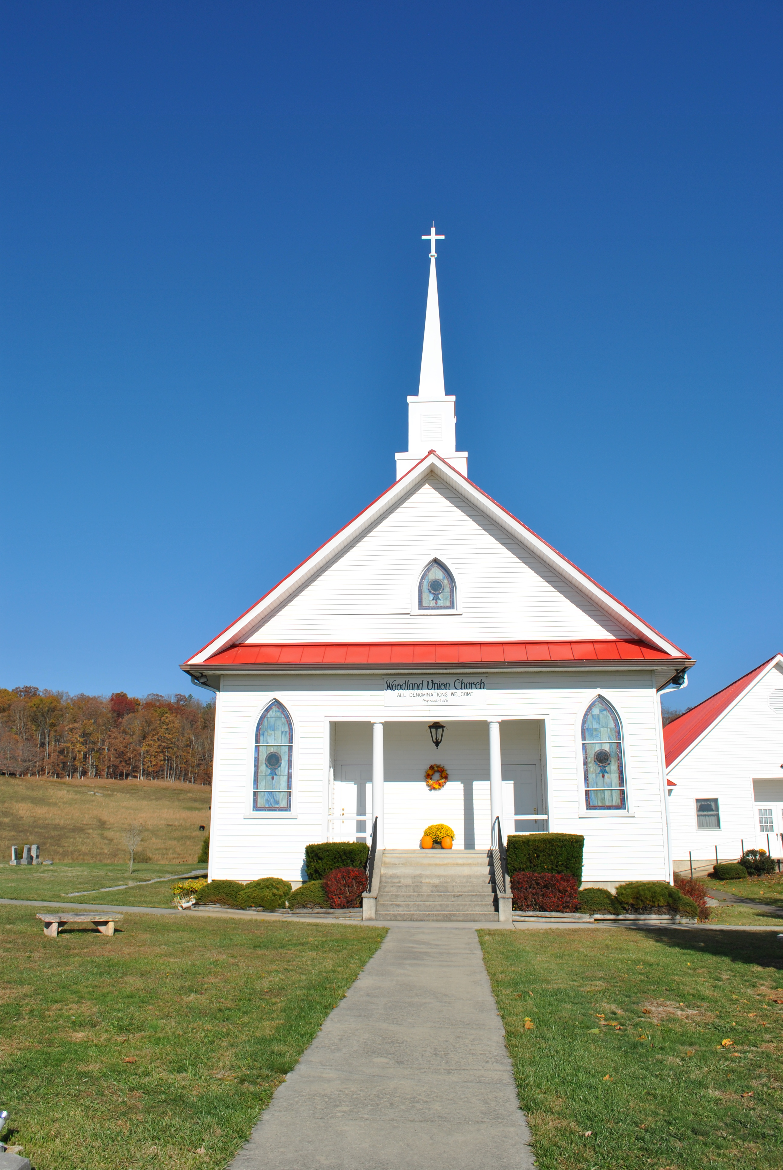 Woodland Union Church and Cemetery in Millboro, Virginia